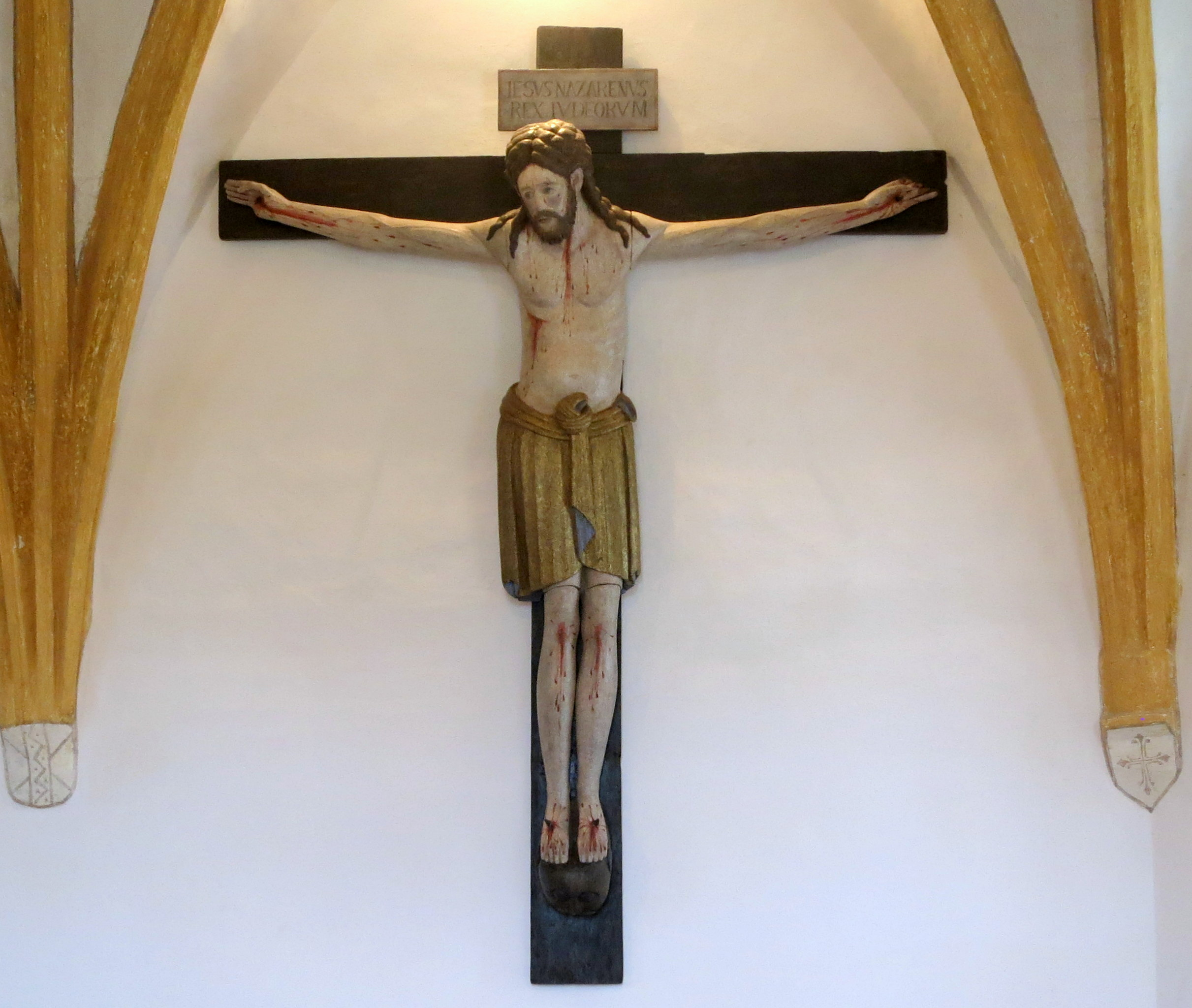 A little church, Holy Cross, in Enghausen near Mauern in Bavaria